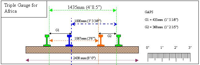 Railway sleeper that handles three main gauges found in Africa.